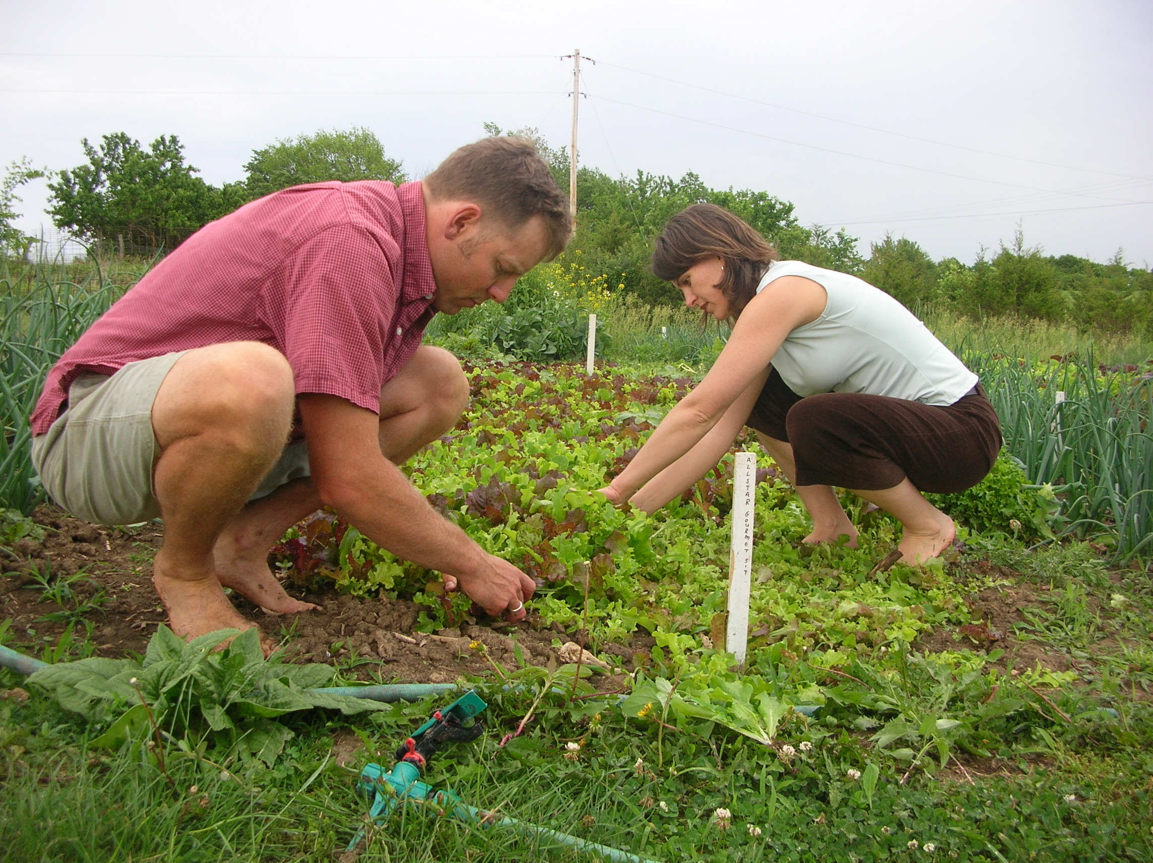 Barefoot farming